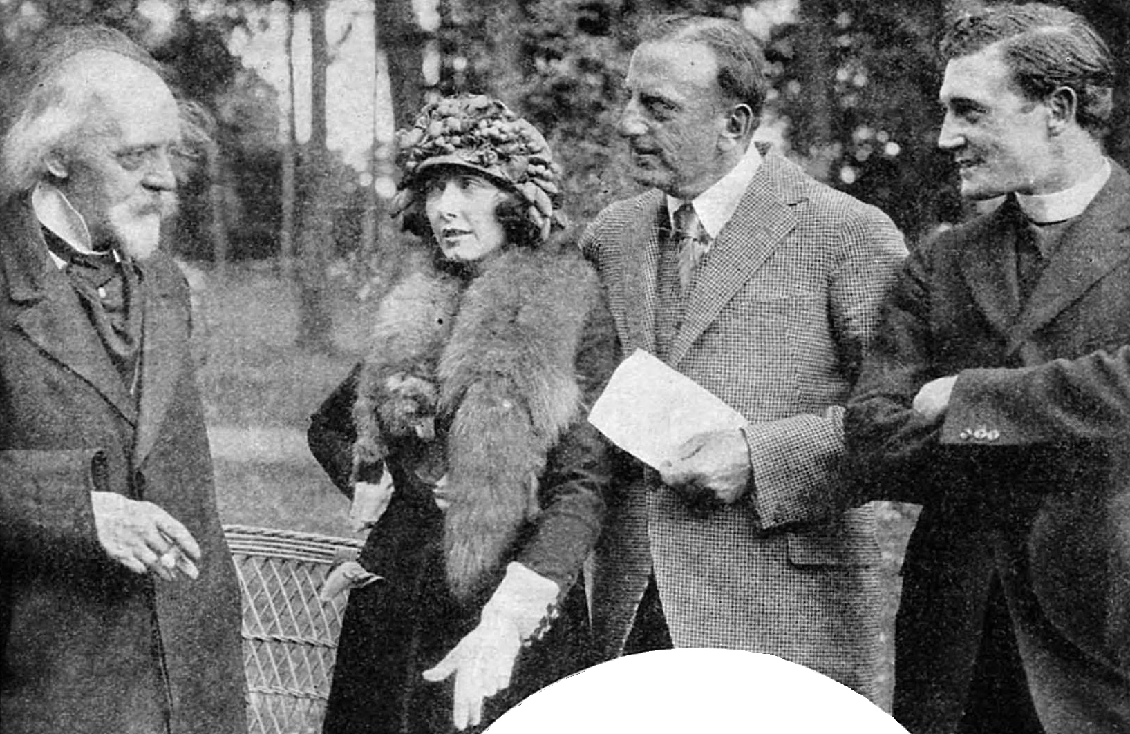 Hall Caine visits the set of The Christian, a film based on his novel. Left to right: Hall Caine, Mae Busch, Maurice Tourneur, and Richard Dix